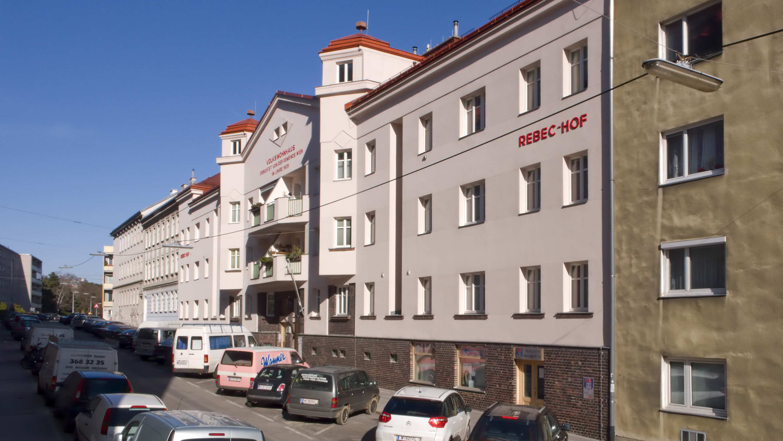 Residential building Rebec-Hof in Vienna Döbling